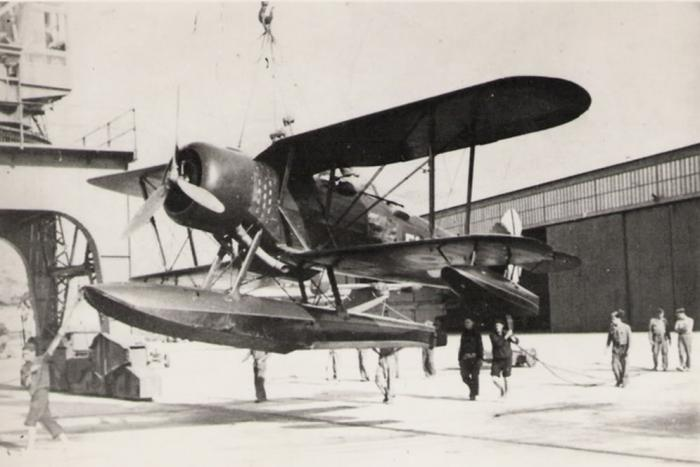 catapult aircraft IMAM Ro.43